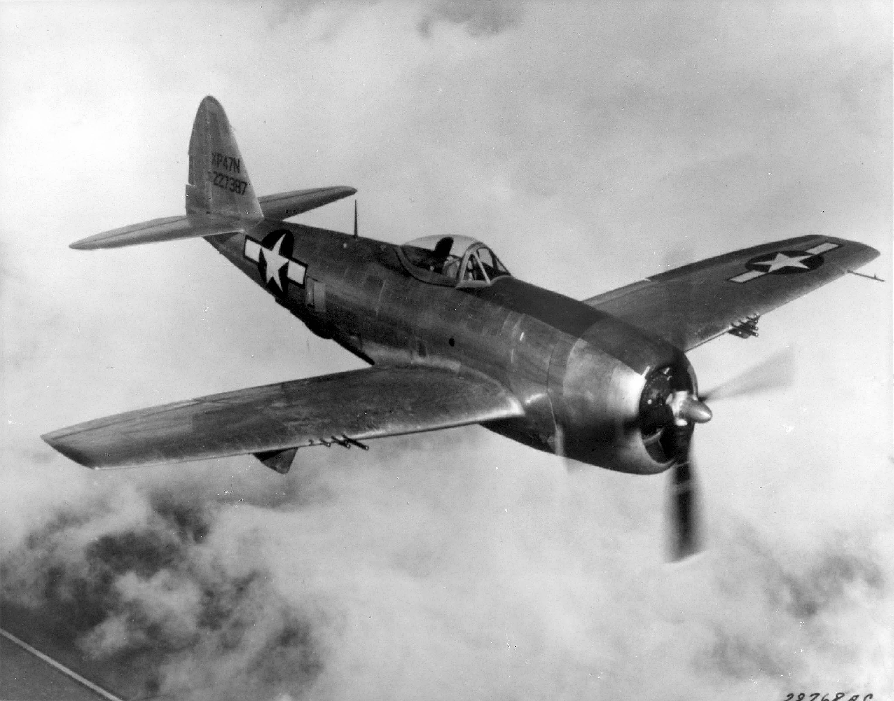 1940's -- Republic P-47N Thunderbolt, Thunderbolt flies its first combat mission--a sweep over the Pacific. Used as both a high-altitude escort fighter and a low-level fighter-bomber, the P-47 quickly gained a reputation for ruggedness. Its sturdy construction and air-cooled radial engine enabled the Thunderbolt to absorb severe battle damage and keep flying. (U.S. Air Force photo) [1]